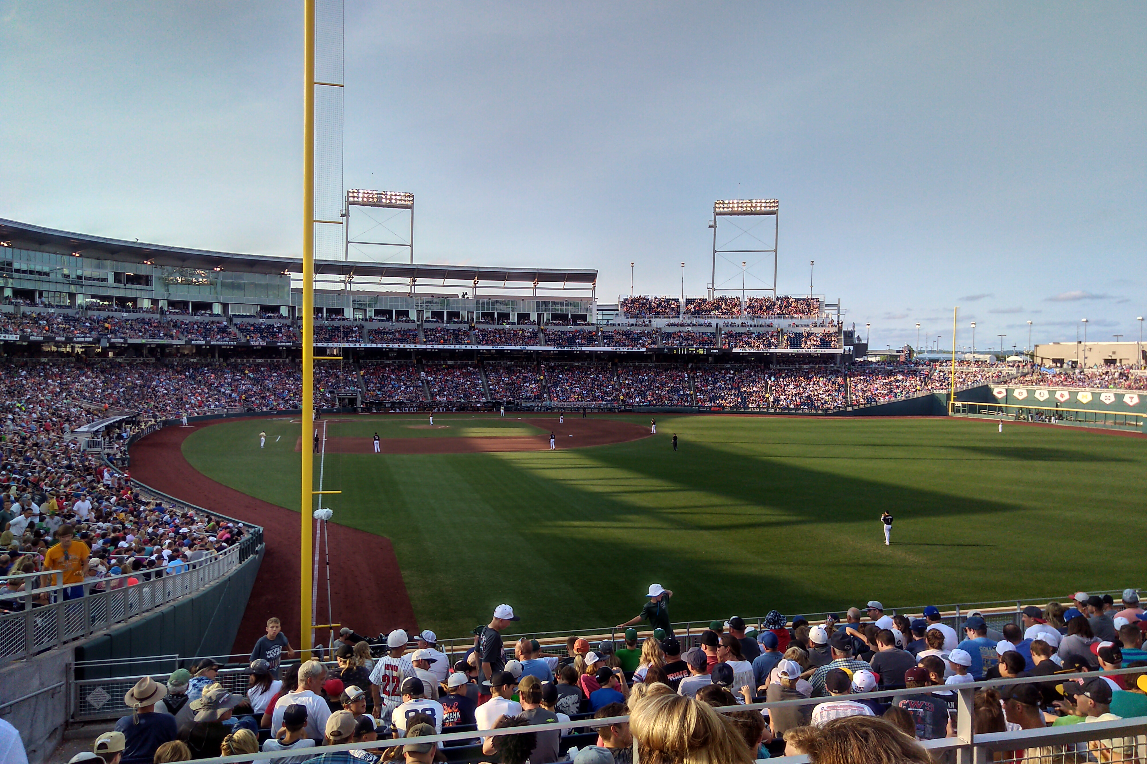 TD Ameritrade Park hosting the 2019 College World Series Final score: Vanderbilt 3, Louisville 2